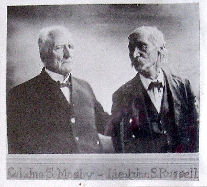 This original picture was presented March 1971 by Mrs. Joel Griffing of Berryville, VA, to the Holy Cross Abbey Museum in Berryville,VA. This is a digital photograph I took of that picture.